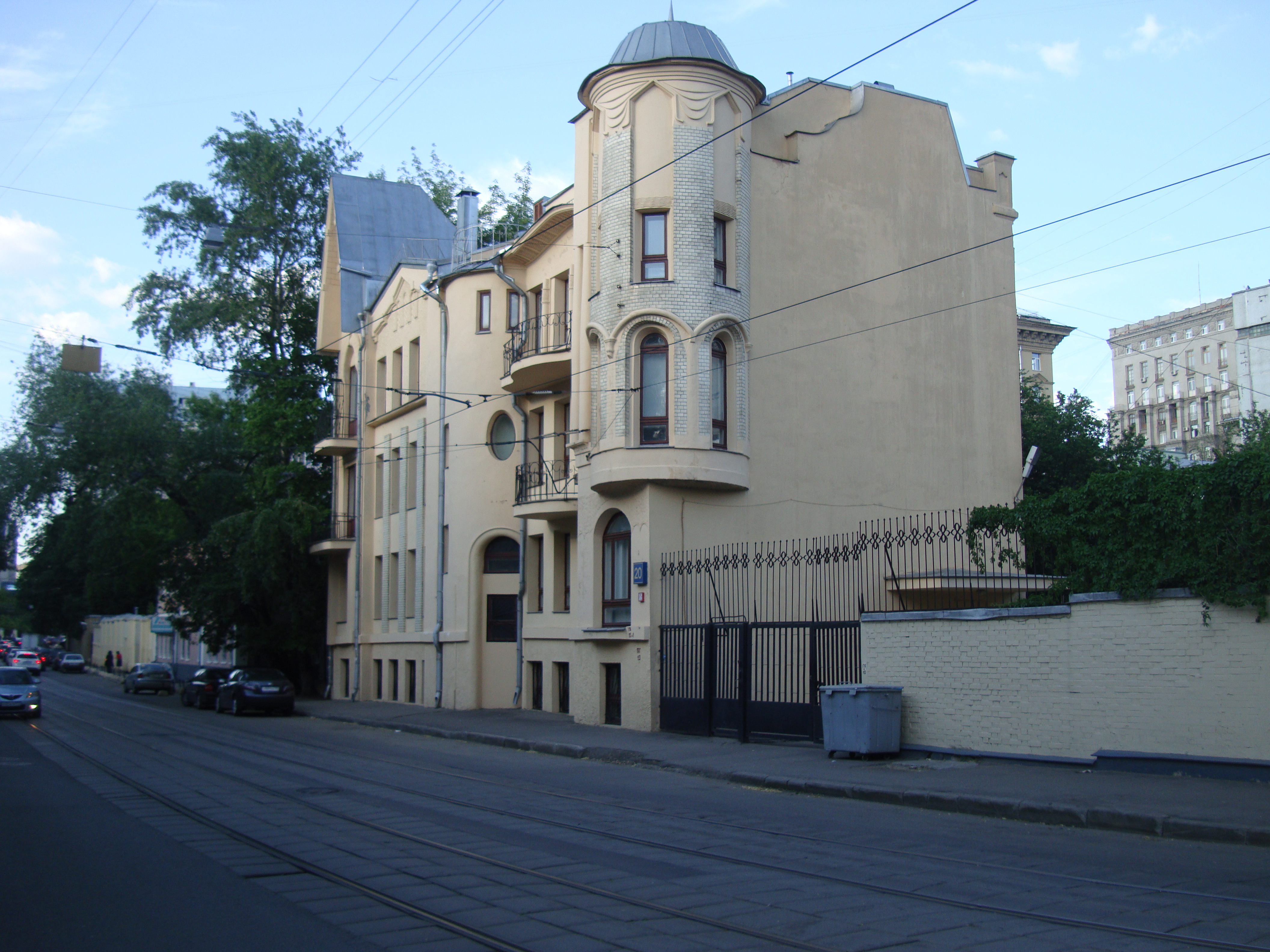 20 Gilyarovsky street, Meshchansky District, Moscow, Russia. Former embassy of Mozambique. Former Lopatina apartment building, built in 1909, architect: S. V. Maslennikov.